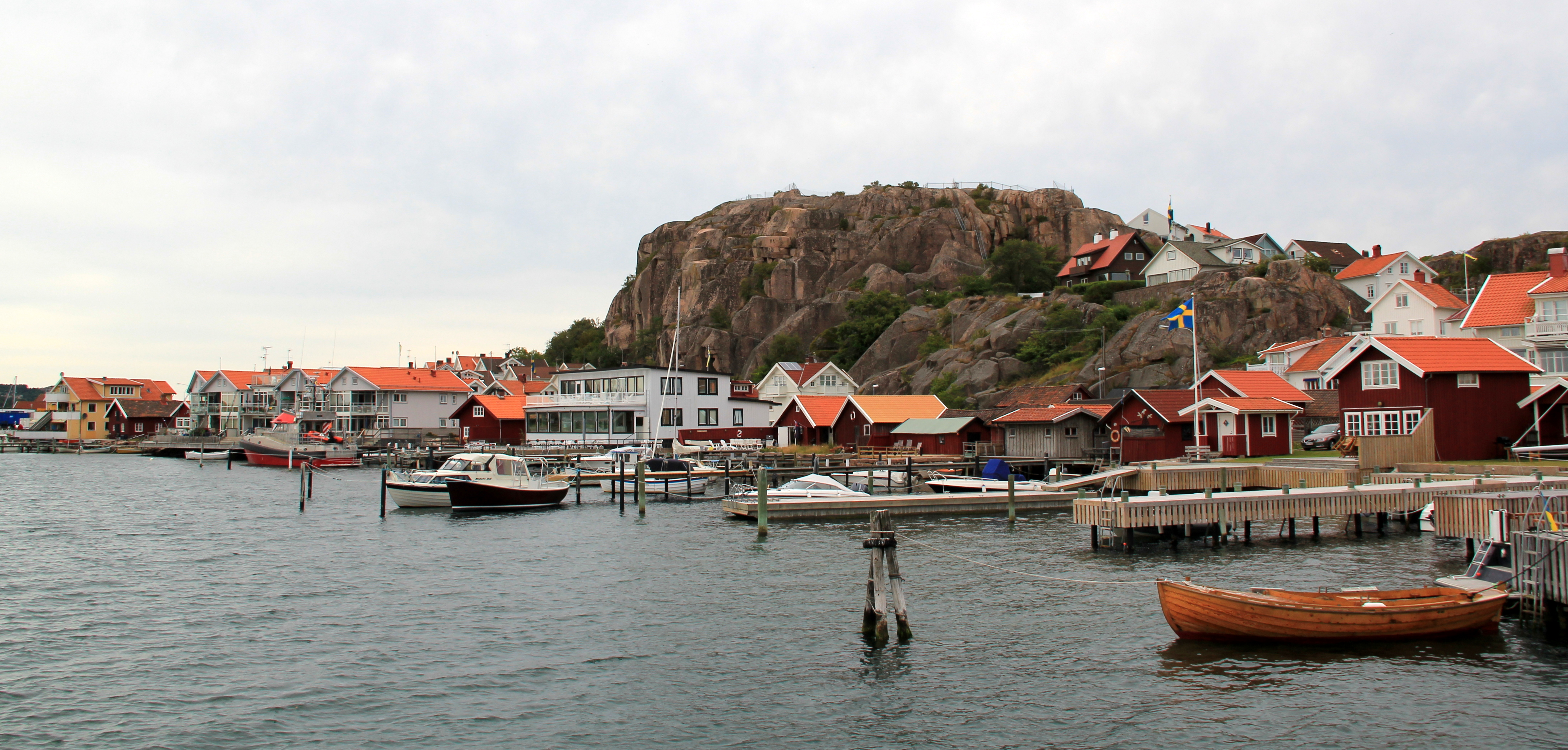 Bovallstrand with Bottnafjorden